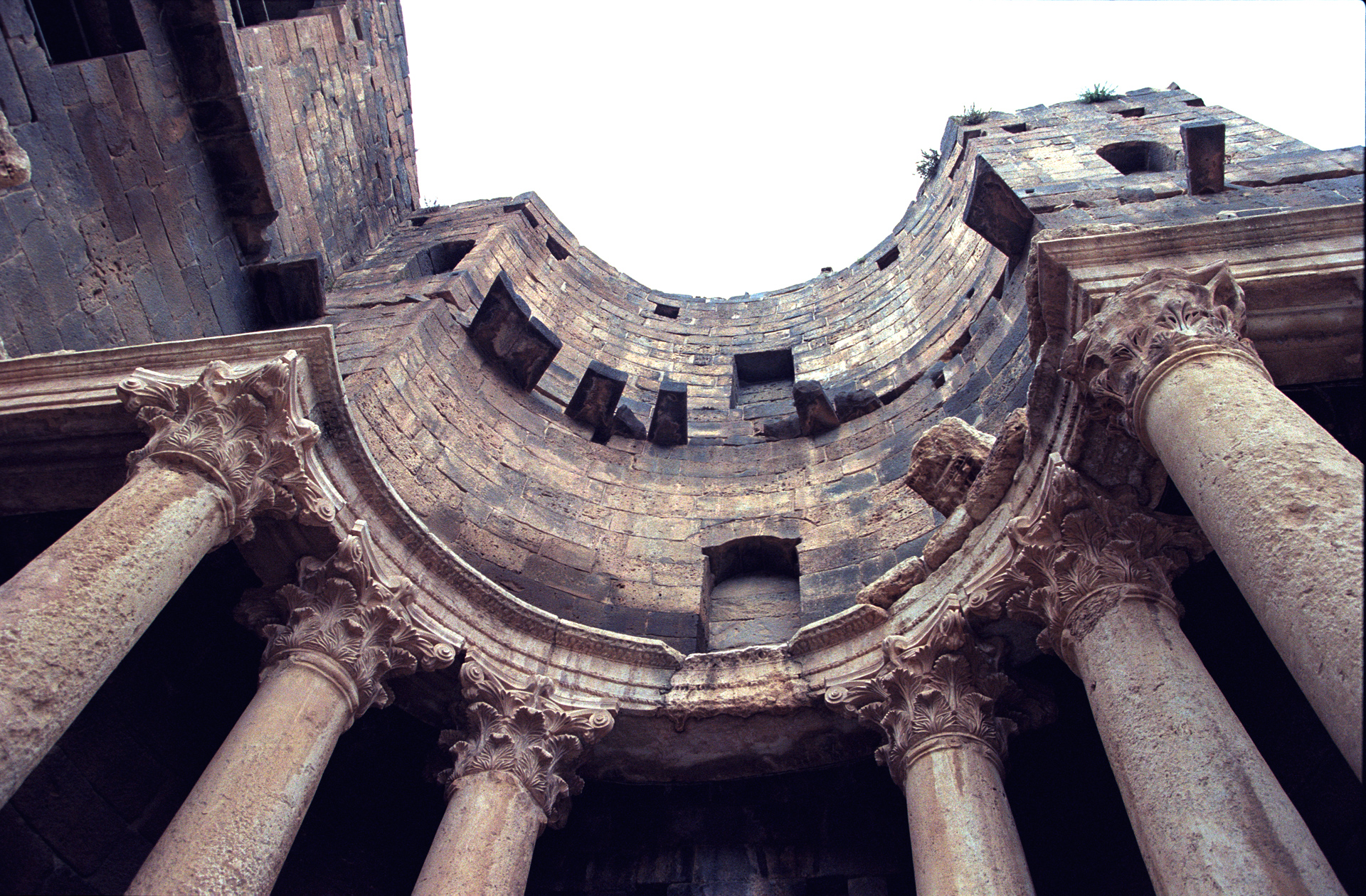 Syria, Roman theater in Bosra